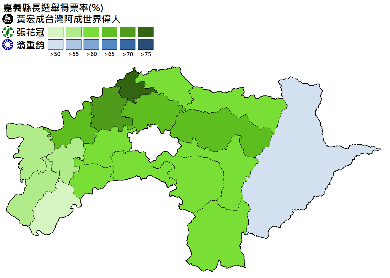 Chiayi magistrate 2014